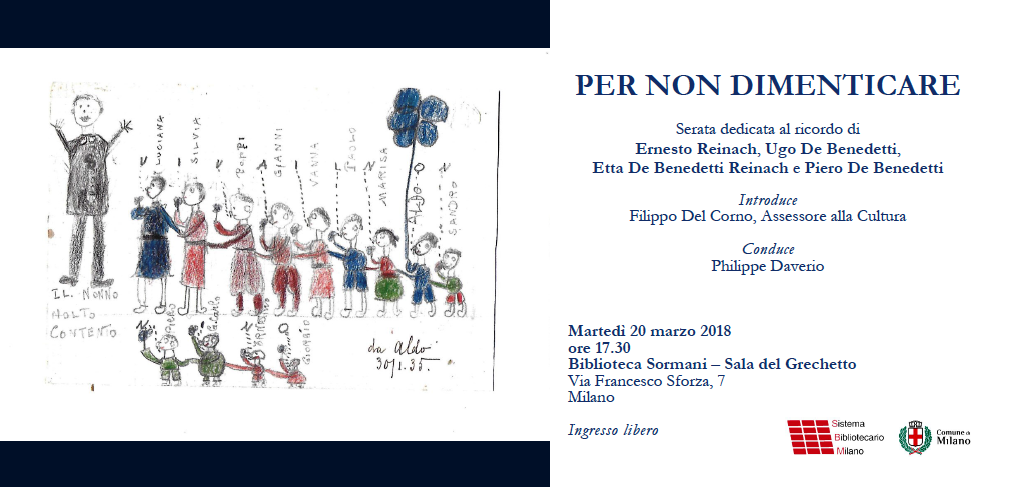 Evening to remember Ernesto Reinach, Ugo, Etta and Piero De Benedetti